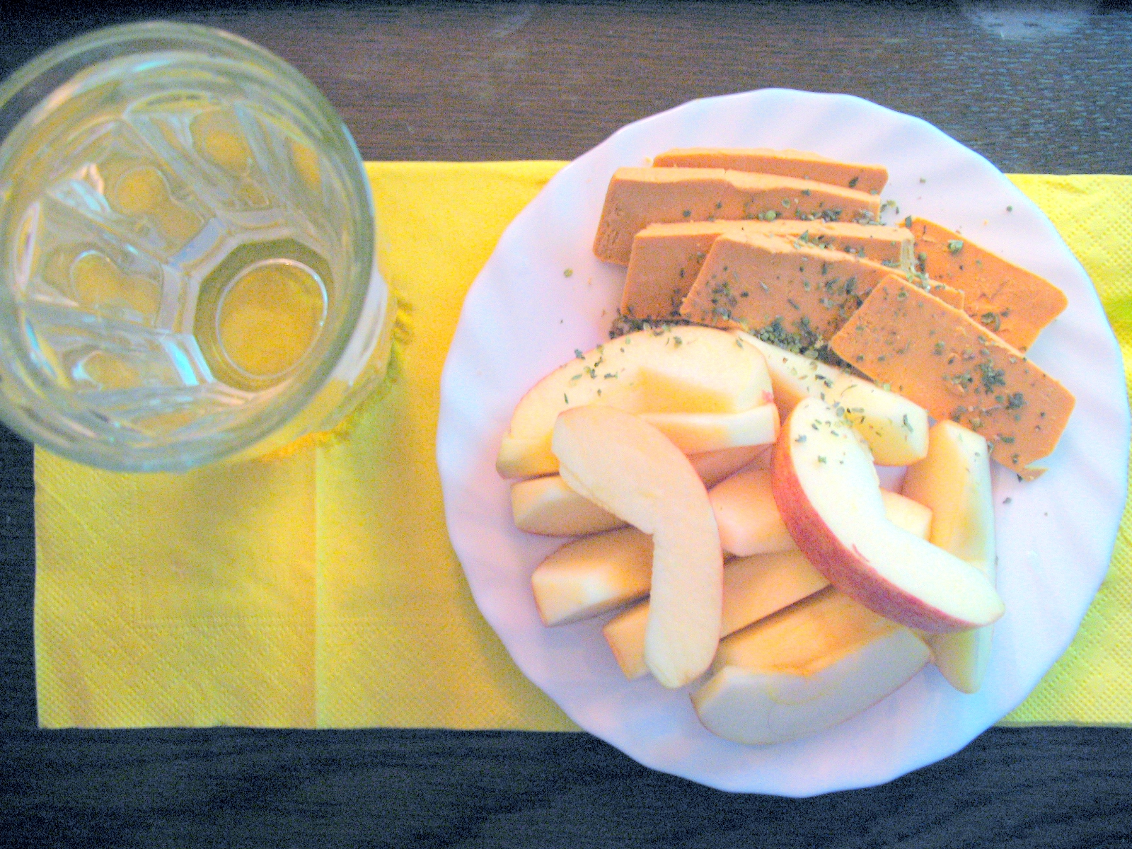 Slices of Sheese Medium Cheddar, a 100% vegan alternative to cheese